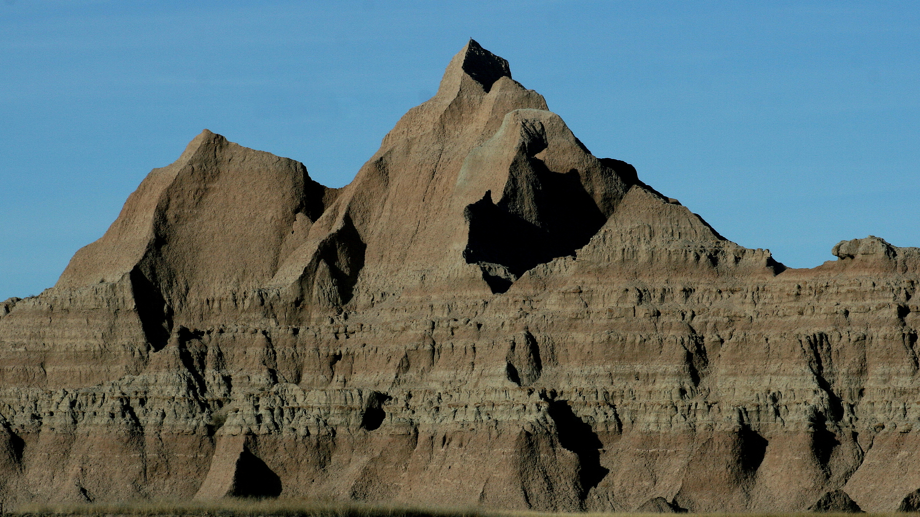 Photo: Lee McDowell, NPS